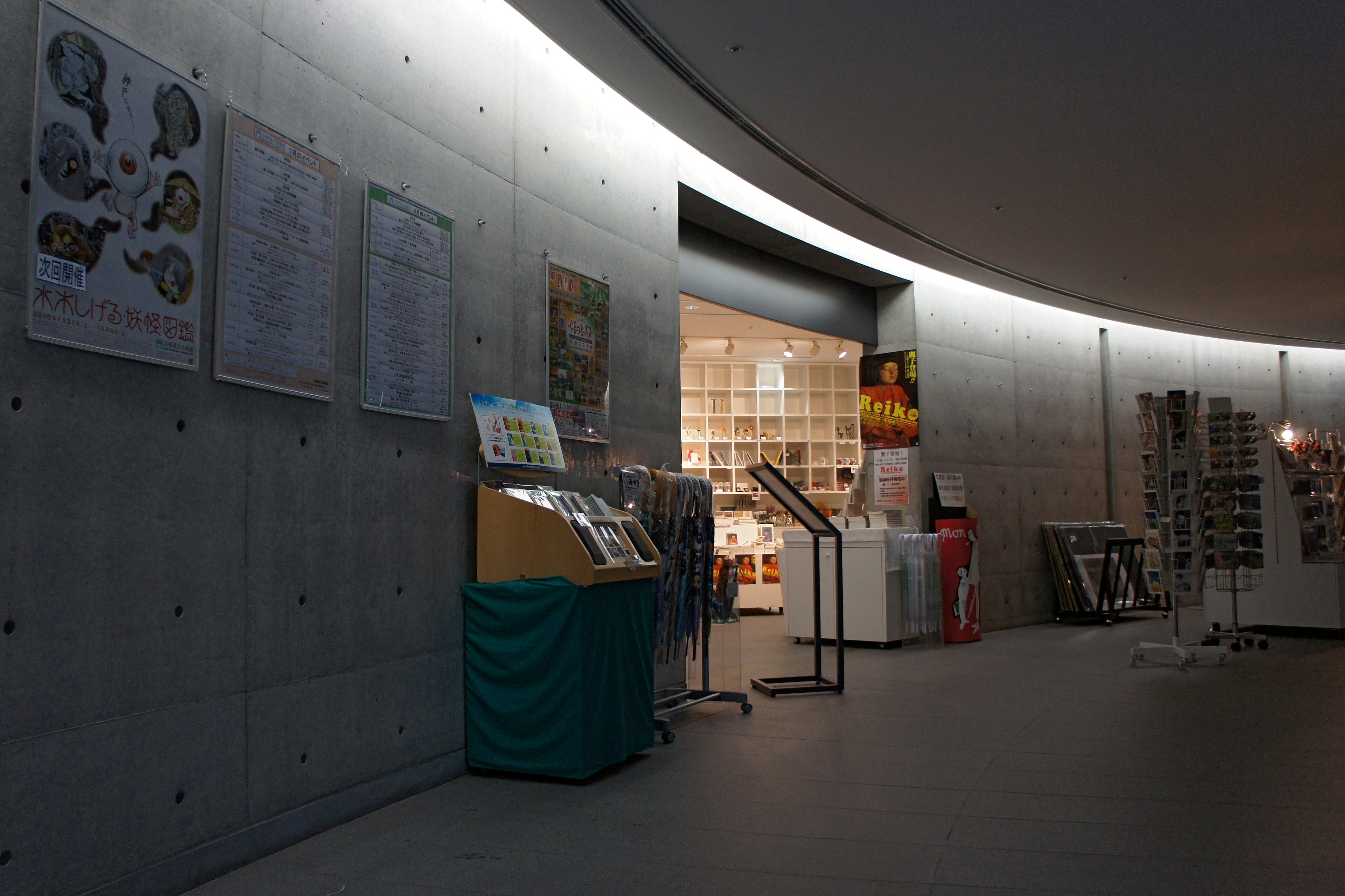 Hyogo Prefectural Museum of Art in Kobe, Hyogo prefecture, Japan